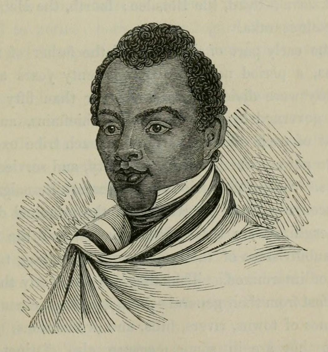 Head of another member of the Embassy to Europe in 1835